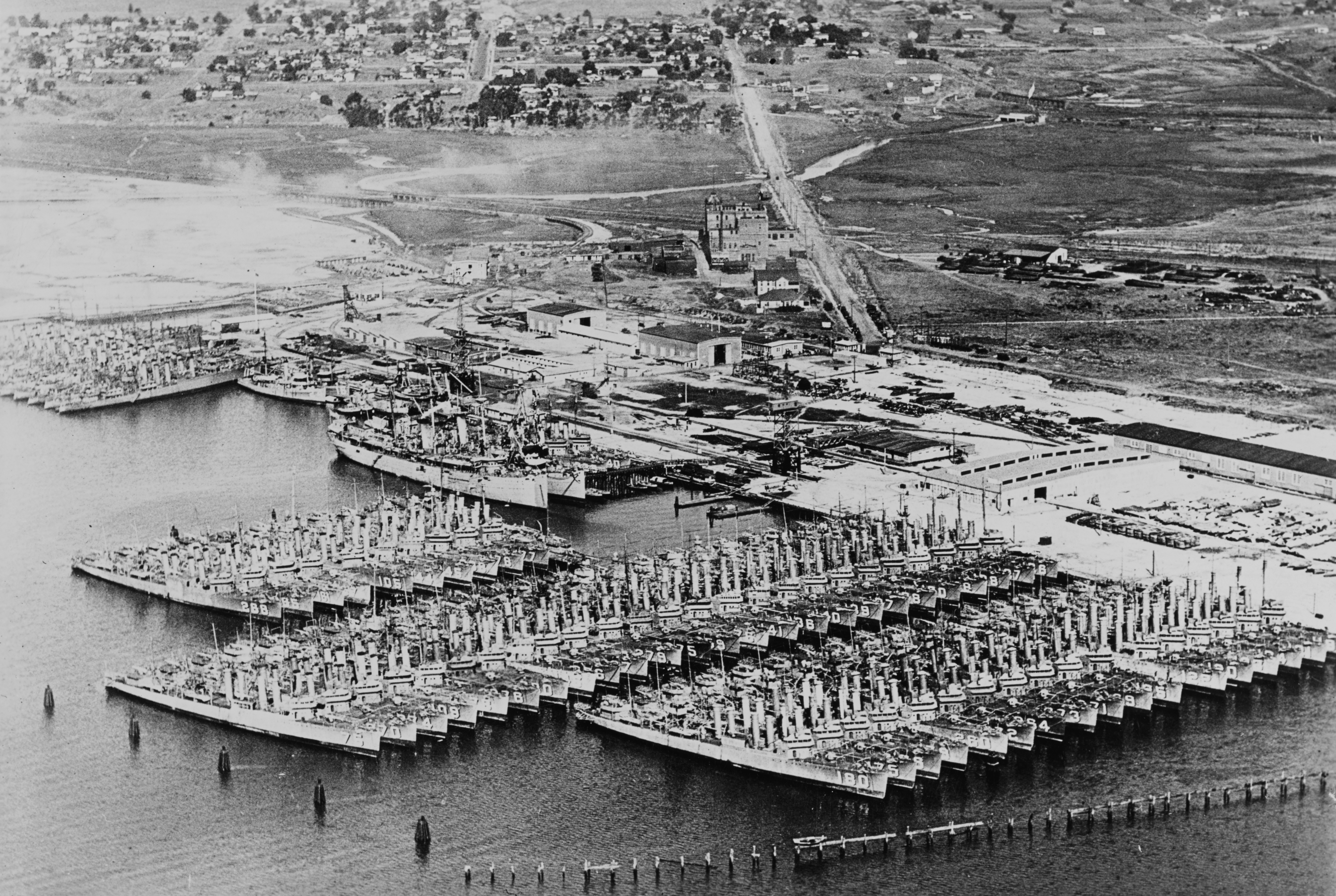 The U.S. Navy "Red Lead Row", San Diego Destroyer Base, California (USA), photographed at the end of 1922, with at least 65 destroyers tied up there. Ships present are identified as (left to right, in the right diagonal row): Stansbury (DD-180); MacKenzie (DD-175); Renshaw (DD-176); Howard (DD-179); Gillis (DD-260); Tingeyv (DD-272); McLanahan (DD-264); Swasey (DD-273); Morris (DD-271); Bailey (DD-269); Tattnall (DD-125); Breese (DD-122); Radford (DD-120); Aaron Ward (DD-132) -- probably; Ramseyv (DD-124); Montgomery (DD-121); and Lea (DD-118). (left to right, in the middle diagonal row): Wickes (DD-75); Thornton (DD-270); Meade (DD-274); Crane (DD-109); Evans (DD-78); McCawley (DD-276); Doyen (DD-280); Elliot (DD-146); Henshaw (DD-278); Moody (DD-277); Meyer (DD-279); Sinclair (DD-275); Turner (DD-259); Philip (DD-76); Hamilton (DD-141); Boggs (DD-136); Claxton (DD-140); Ward (DD-139); Hazelwood (DD-107) or Kilty (DD-137); Kennison (DD-138); Jacob Jones (DD-130); Aulick (DD-258); Babbitt (DD-128); Twiggs (DD-127); and Badger (DD-126). (left to right, in the left diagonal row): Shubrick (DD-268); Edwards (DD-265); Palmer (DD-161); Welles (DD-257); Mugford (DD-105); Upshur (DD-144); Greer (DD-145); Wasmuth (DD-338); Hogan (DD-178); O'Bannon (DD-177); and -- possibly -- Decatur (DD-341). (Nested alongside wharf in left center, left to right): Prairie (AD-5); Buffalo (AD-8); Trever (DD-339); and Perry (DD-340). Minesweepers just astern of this group are Partridge (AM-16) and Brant (AM-24). Nearest ship in the group of destroyers at far left is Dent (DD-116). The others with her are unidentified.